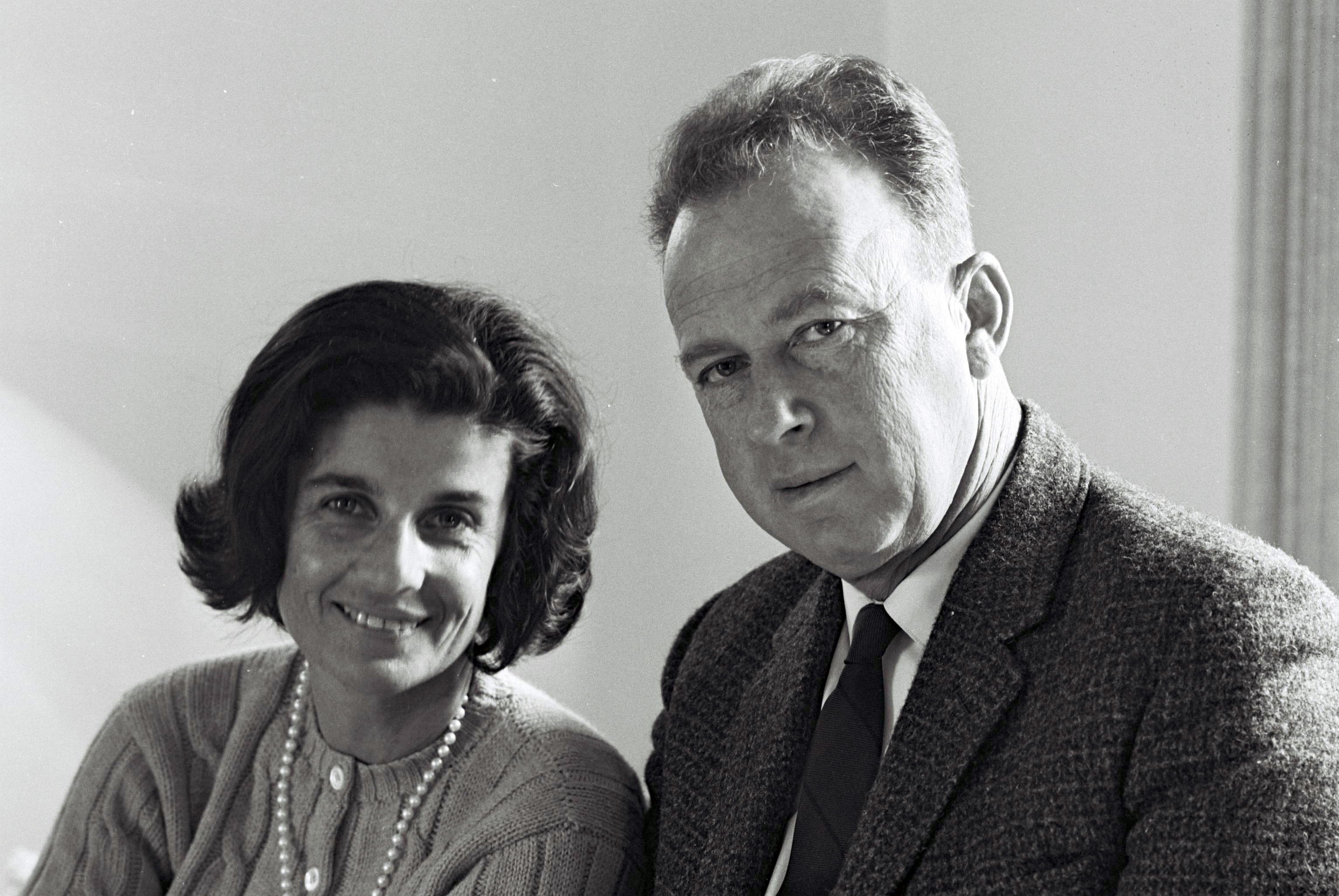 ISRAEL AMBASSADOR TO U.S.A. YITZHAK RABIN AND HIS WIFE LEAH.